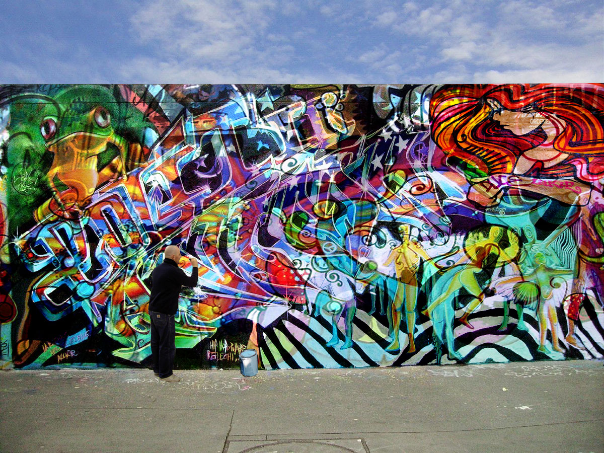 Creation of an abstract mural